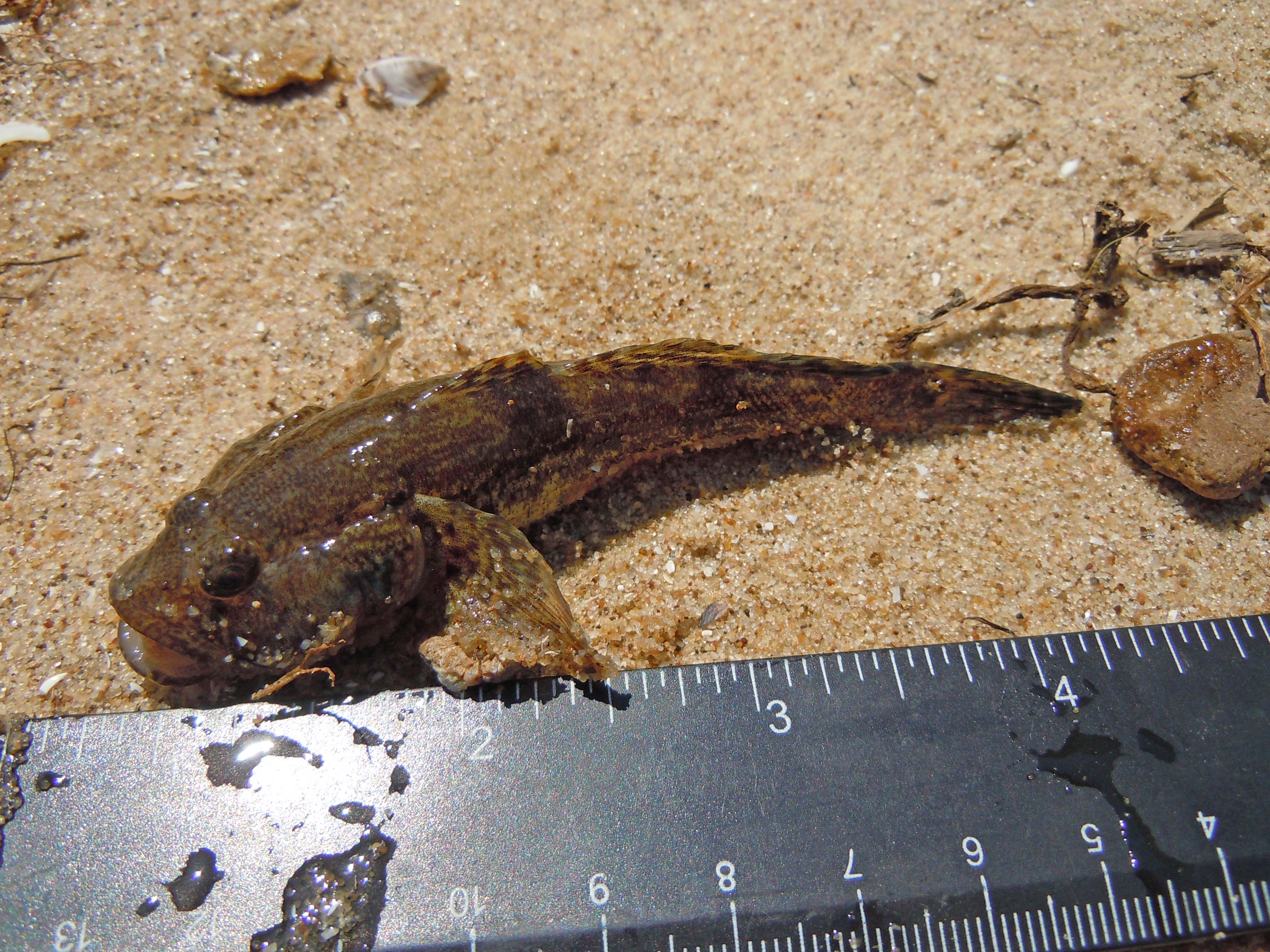 The bighead goby (Ponticola kessleri) from the Dniester Estuary, Ukraine